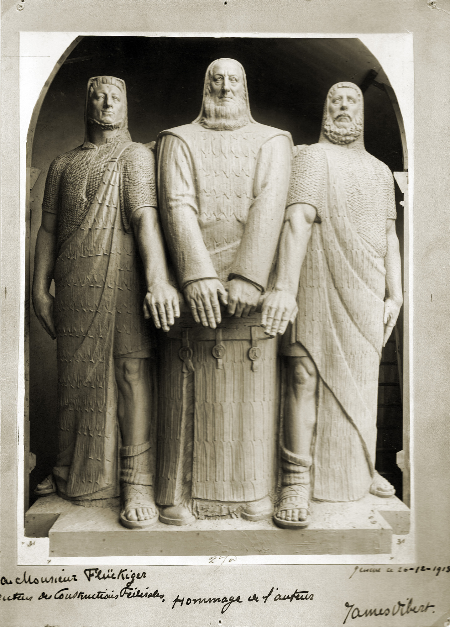 1913 photograph of a study for the monumental statue of the "Three Confederates" at the Federal Palace of Switzerland, completed in 1914. The photograph is dated 26-12-1913 and signed by the artist with a dedication to "Monsieur [Arnold] Flückiger, Directeur des Constructions Fédérales".